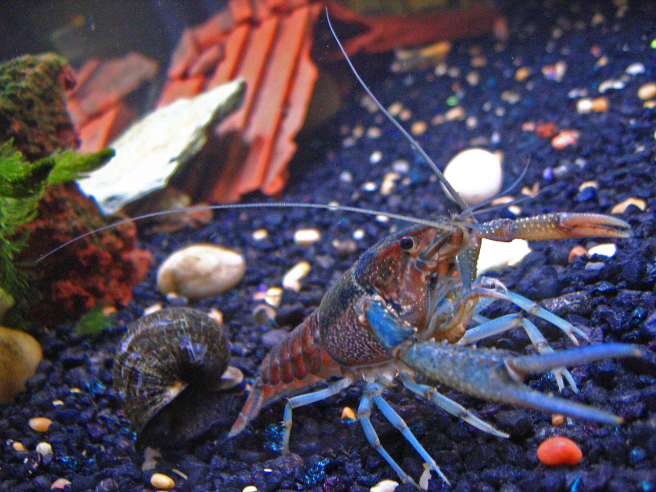 A pet crayfish named Clippy II and an apple snail in a freshwater home aquarium